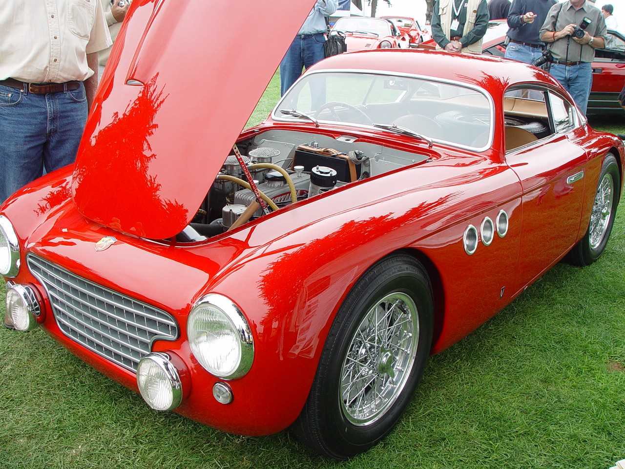 1950 Abarth 205A Berlinetta Vignale. Photograph taken at 2004 Concorso Italiano.